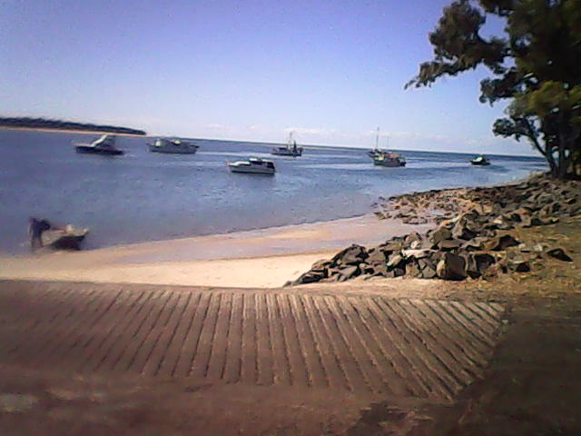 Burrum River sights